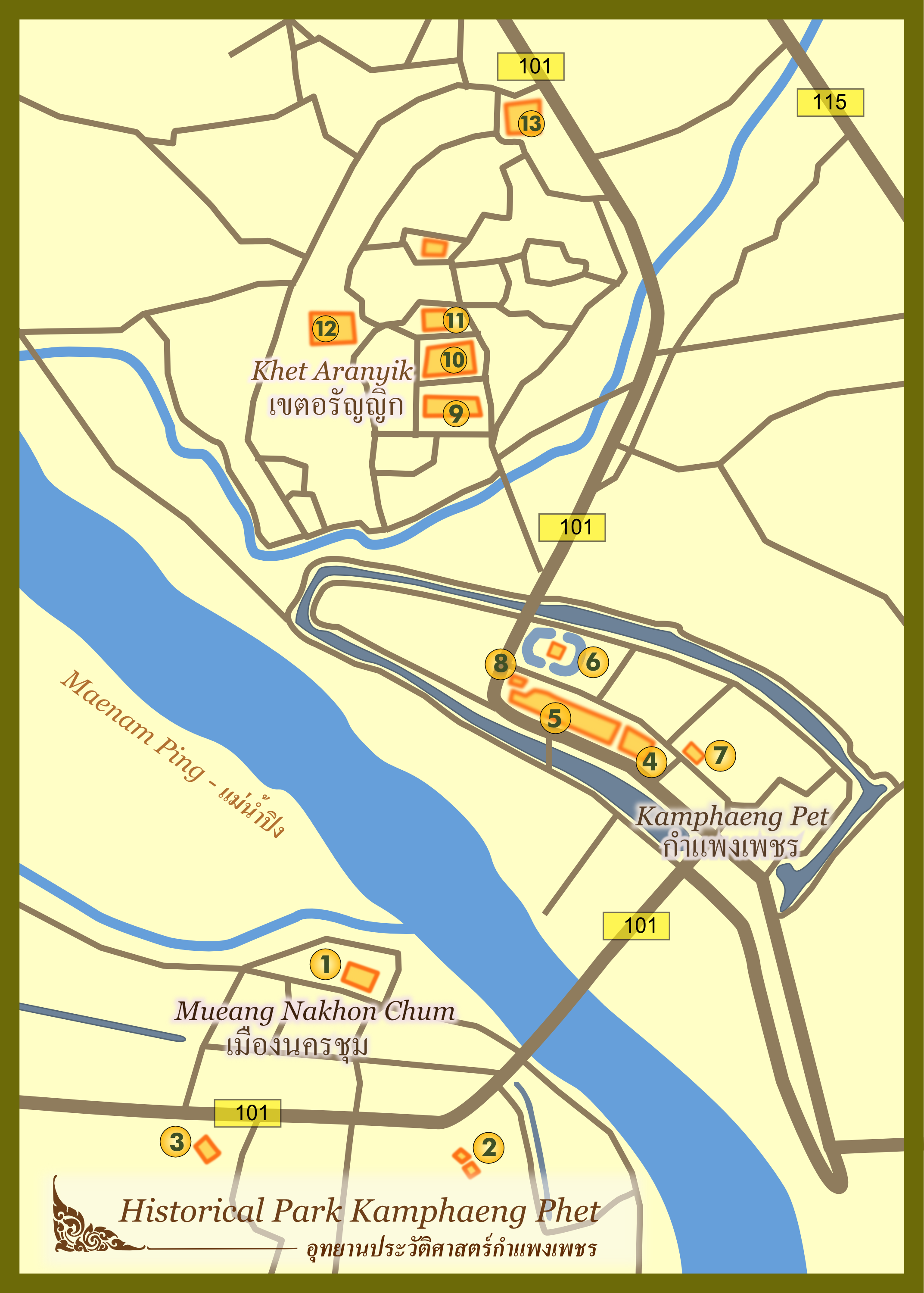 Map of Kamphaeng Phet Historical Park, Kamphaeng Phet, northern Thailand.